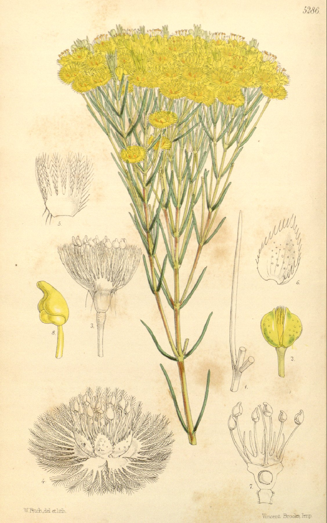 Volume 87 pl. 5286. The title is " VERTICORDIA nitens. Glistening Verticordia". The art and lithograhic work is by Walter Fitch and the printing was performed by Vincent Brooks.